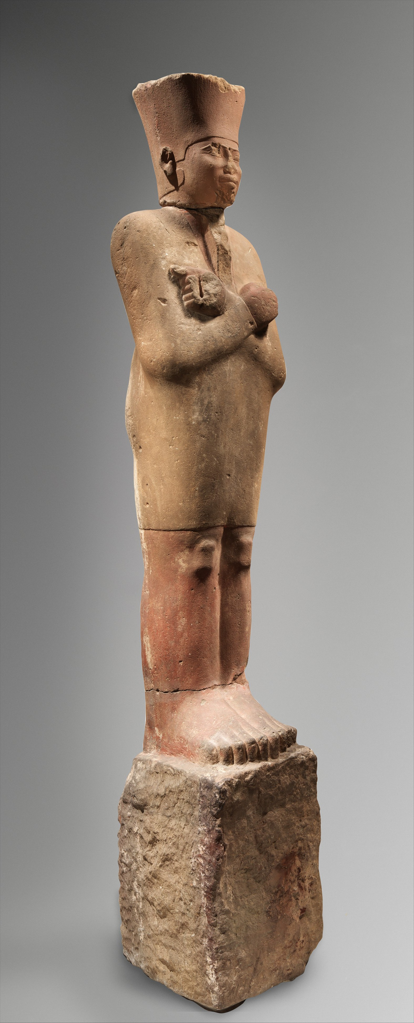 Statue, standing king, Mentuhotep, Nebhepetre